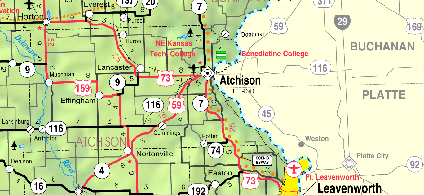 This map of Atchison County, Kansas, USA, is copied at a resolution of 300 pixels/inch from the original PDF file.